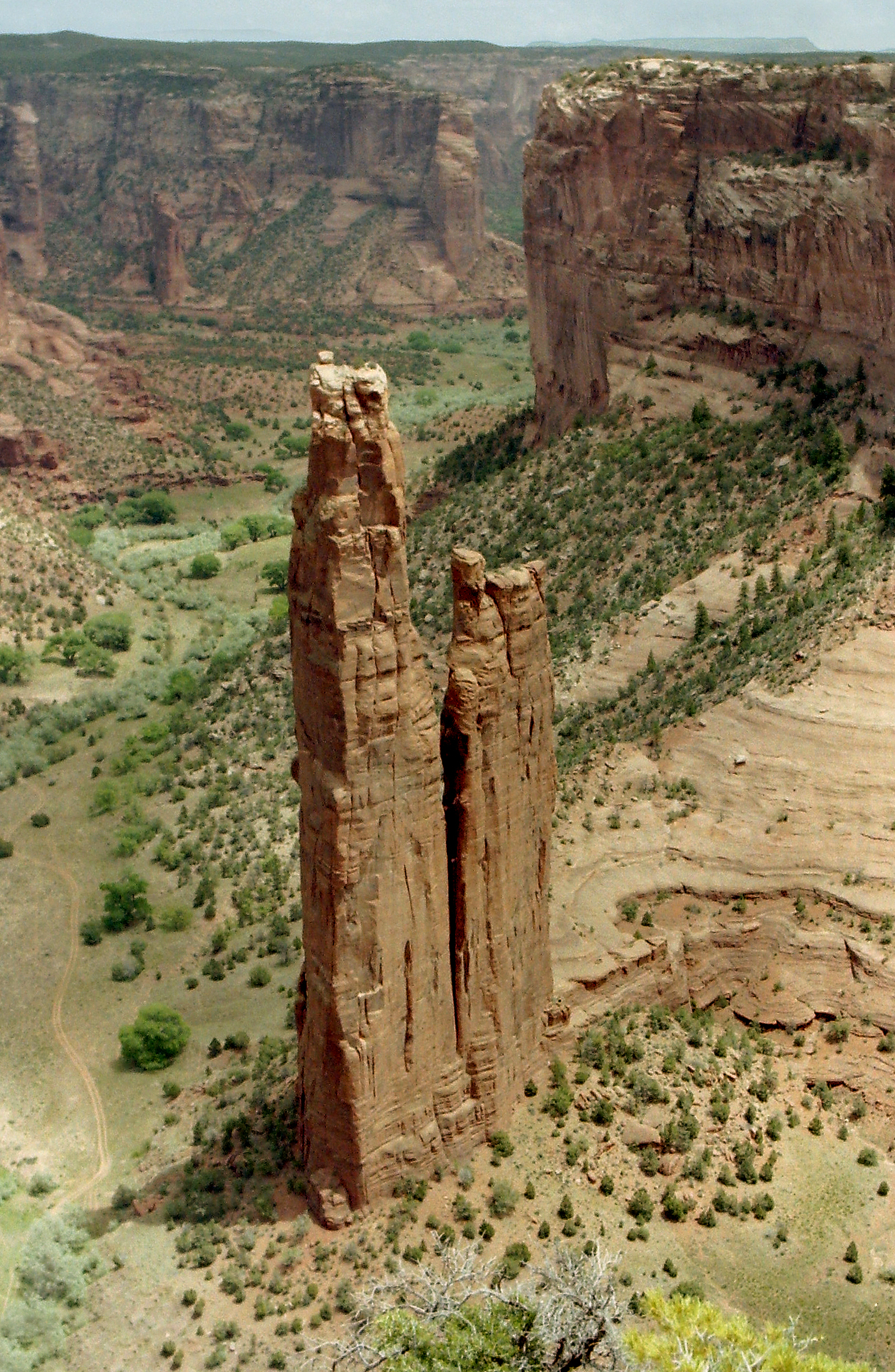 Canyon de Chelly National Monument is located in northeastern Arizona on the border of New Mexico, United States. The Canyon is situated on the Navajo territory. View to Spider Rock from Overlook Point.